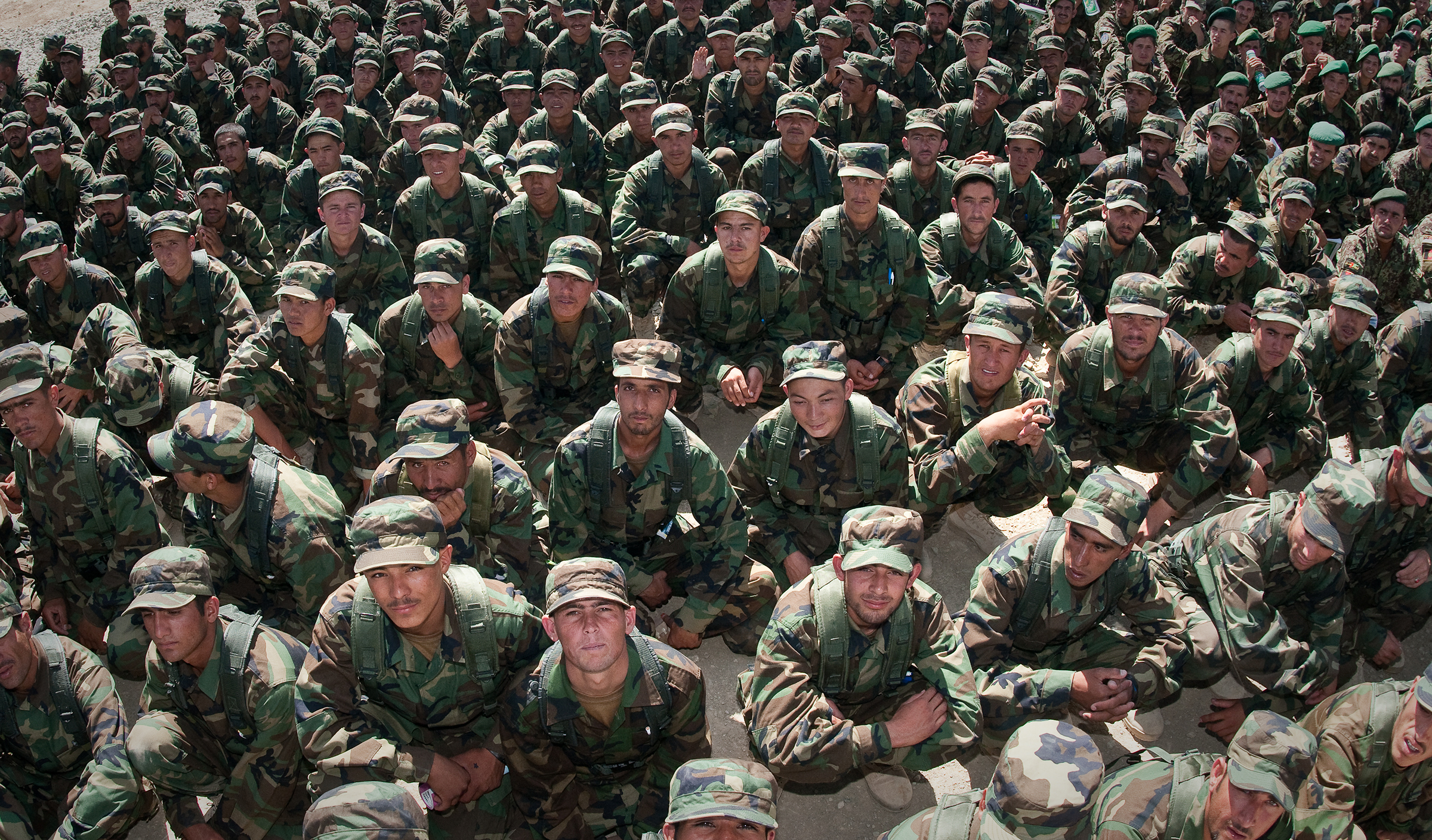 PAKTYA PROVINCE, Afghanistan (May 31, 2010) — Afghan National Army soldiers attending the ANA Non-Commissioned Officers Academy await further training at Forward Operating Base Thunder.